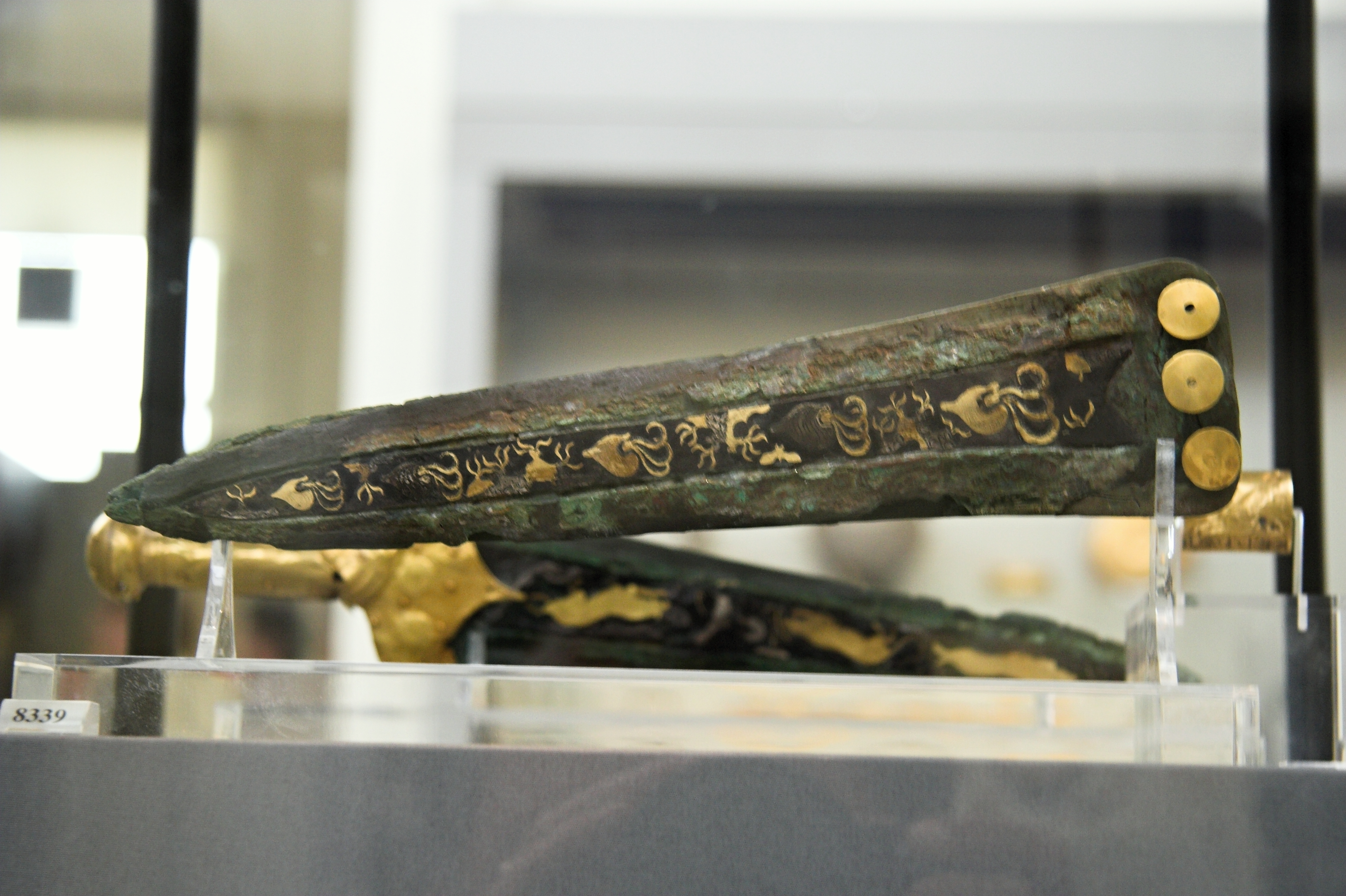 Mycenaean dagger, bronze, inlaid with silver and gold. Marine style: some of the Nautilus (Nautilidae). Place of findingː Pylos. Late Bronze Age, 15 century BC. National Archaeological Museum of Athens N 8339.